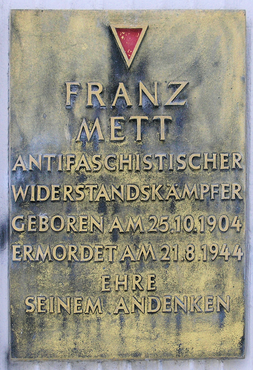 Memorial plaque, Franz Mett, Weinmeisterstraße 16, Berlin-Mitte, Germany Koordinate:52°31′34″N 13°24′17″E / 52.52611°N 13.40472°E